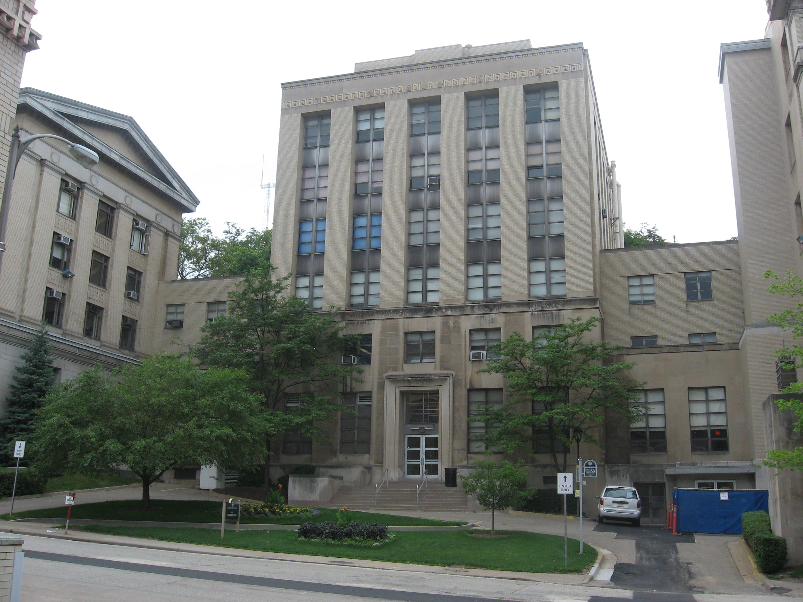 Old Engineering Hall at University of Pittsburgh 40°26′42″N 79°57′29.3″W / 40.445°N 79.958139°W